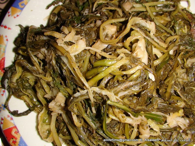 نباتات برية سورية تؤكل